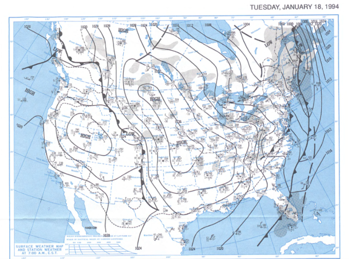 Surface map at 7 AM EST on January 18, 1994 showing high pressure at the surface over the midwest and Northeasterly winds that bring in the cold air associated with the cold wave.